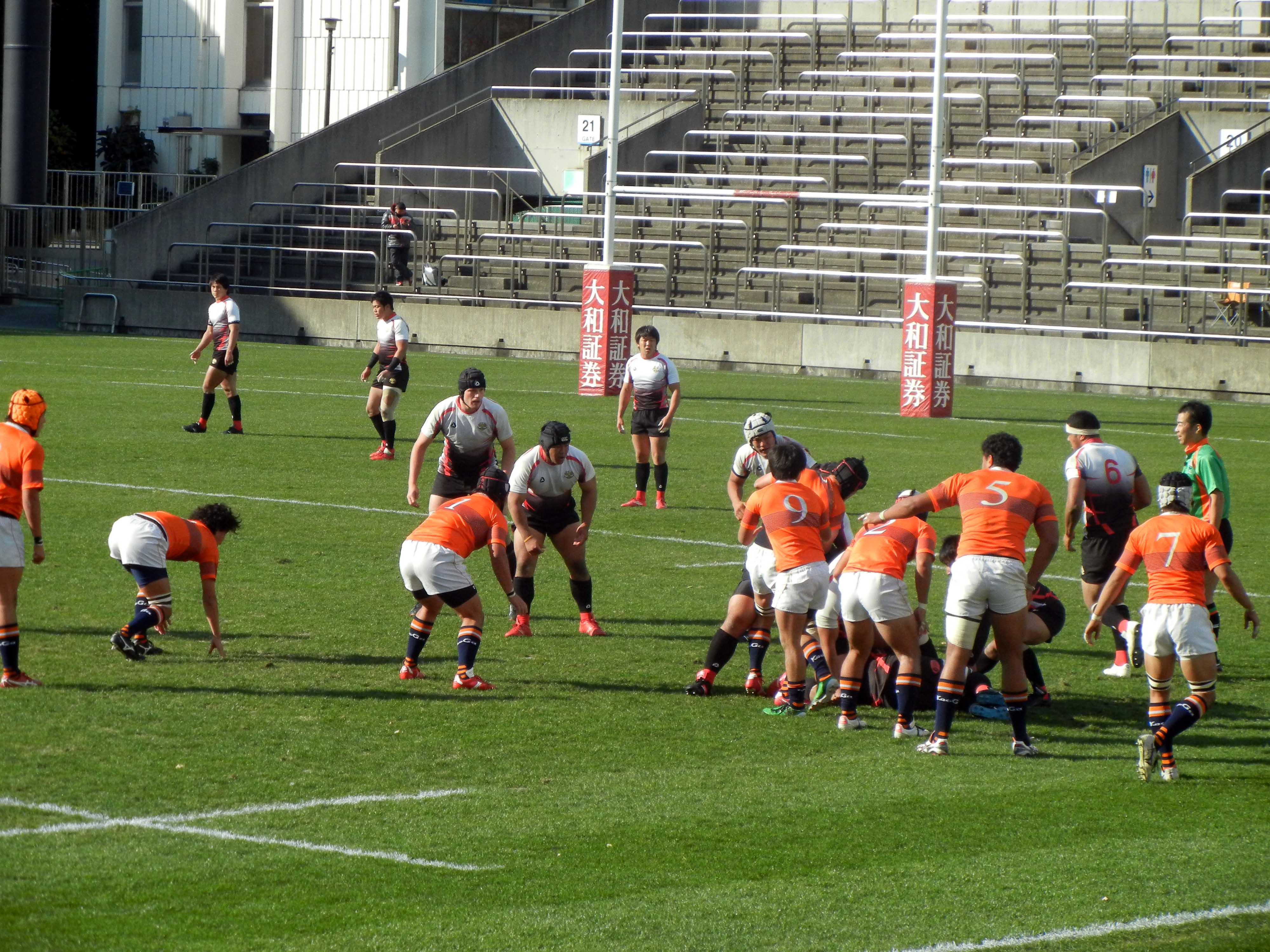 Teikyo University vs Takushoku University